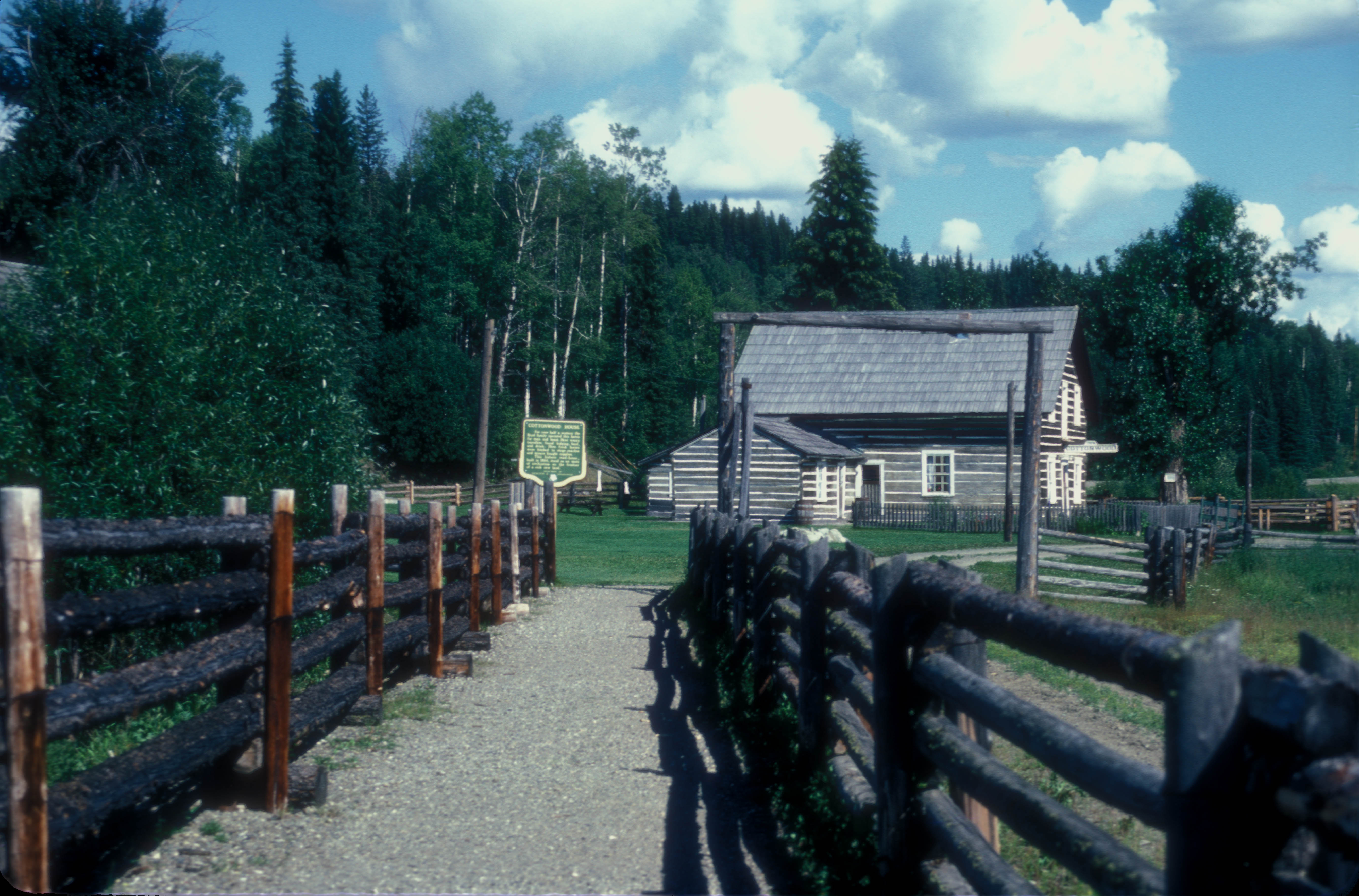 BUILT IN 1864 AS A ROAD HOUSE BY THE BOYD FAMILY.